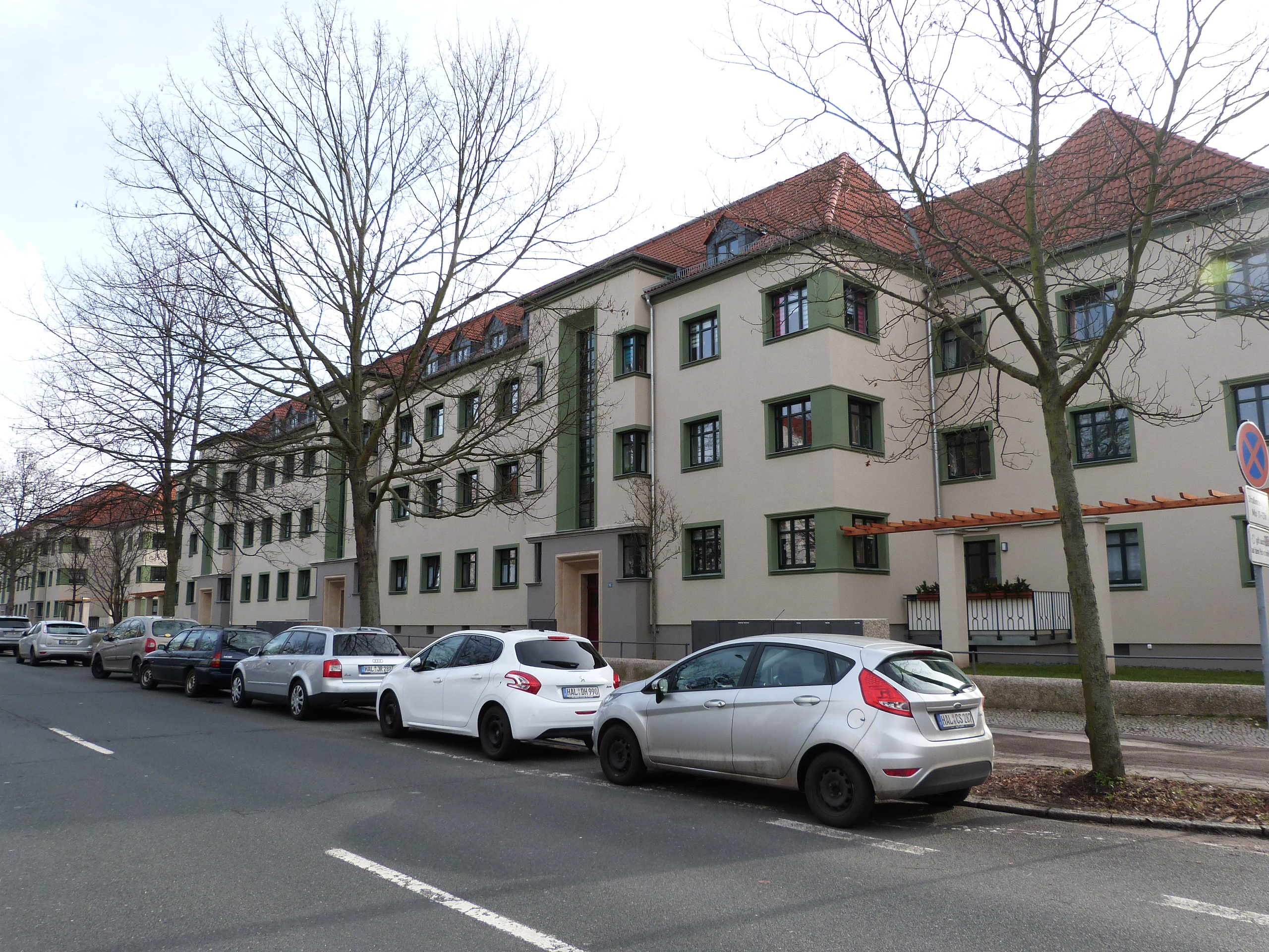 Street Landrain, Halle (Saale), Häusergruppe erbaut 1929/30, Architekt Heinrich Faller